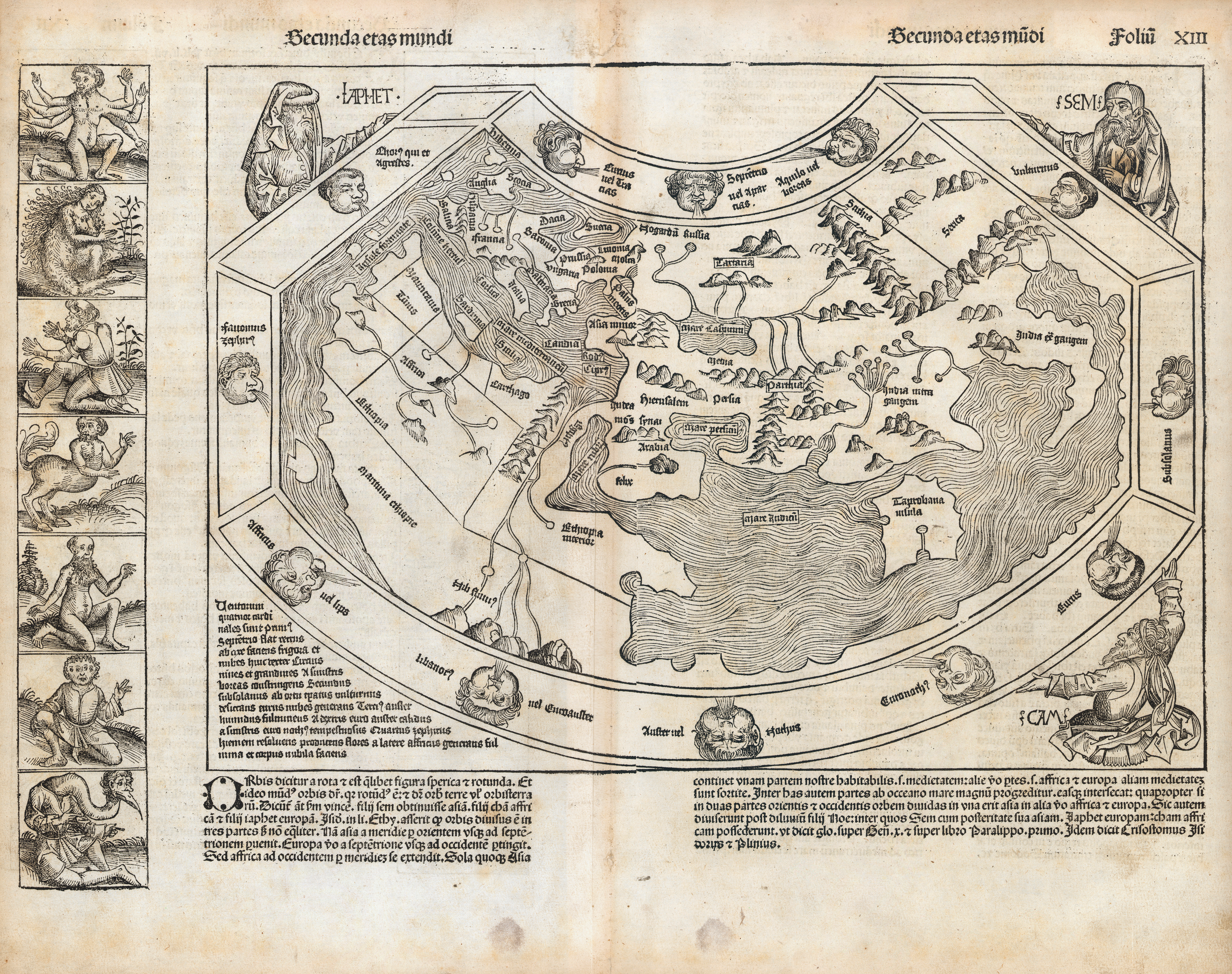 This page from the celebrated "Nuremberg Chronicle" of 1493 depicts the world as commonly known to most educated Europeans before the discoveries of Columbus in the Americas were understood. The woodcut map reflects a combination of ancient Greco-Roman geographical understanding with symbolism based upon Judaeo-Christian traditions. The shape of the map derives from textual descriptions of the world passed down through the Middle Ages from Ptolemy’s second-century Geography without great attention to detail. Twelve windheads surround the map, the outline of which is held up by three figures depicting the sons of Noah: Shem, Ham, and Japheth, from whom all peoples in the three known continents of Asia, Africa, and Europe were believed to descend. To the left of the map are seven depictions of monstrous or freakish characters situated to suggest that such creatures inhabit the edges of the world. A further fourteen of these mythic monstrous figures, inspired by ancient sources such as Pliny, Pomponius Mela, Solinus, and Herodotus' Fables appear on the reverse side of the page.